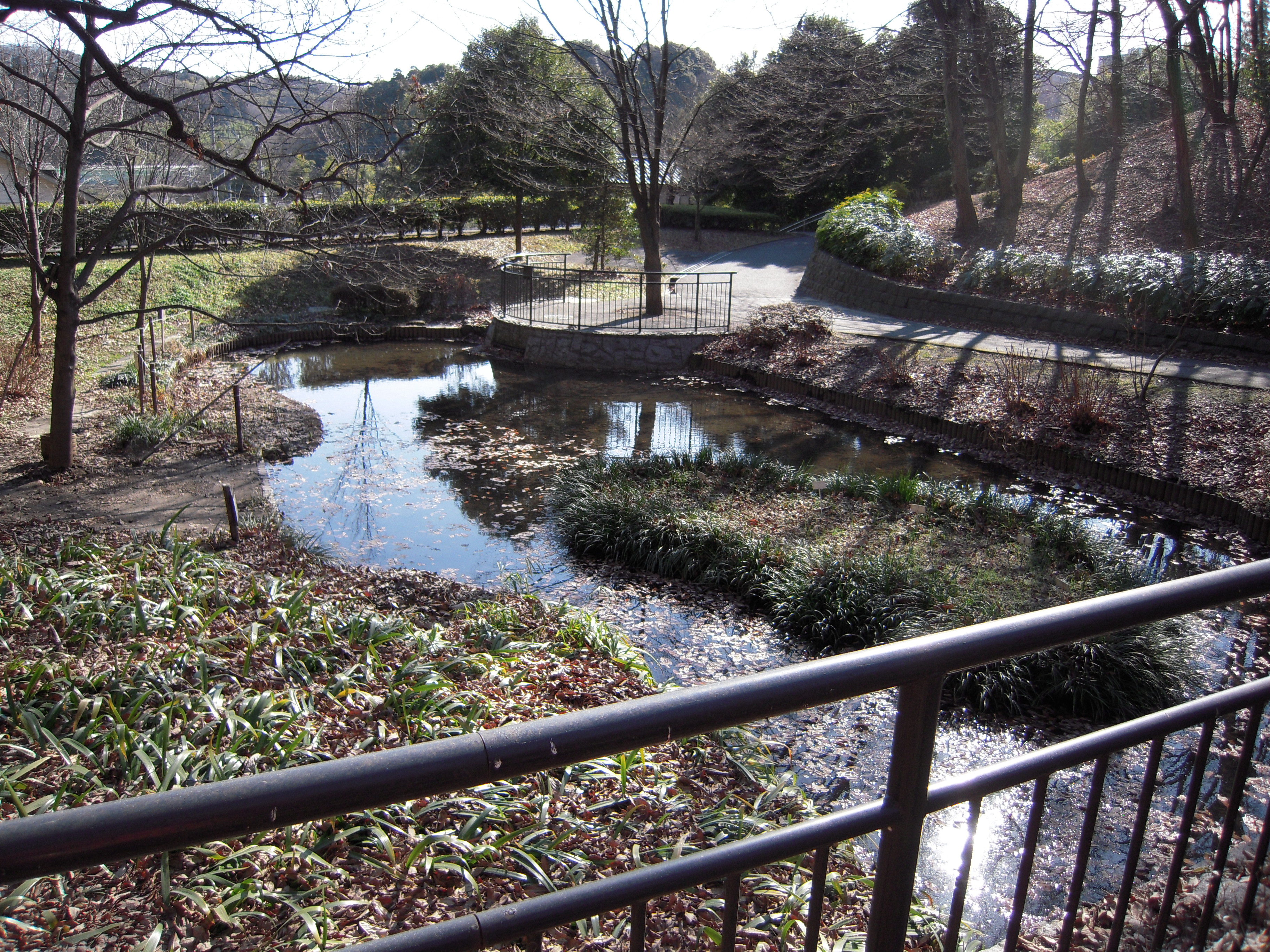 Inagi chuo koen